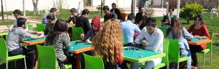 Kilis 7 Aralık University Pecic, a local game, tournament